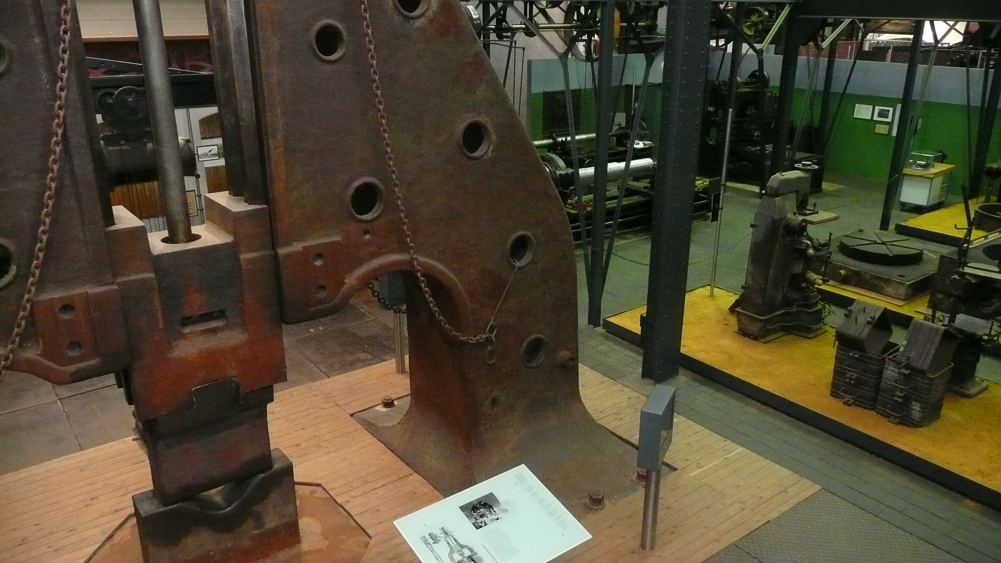 Drop hammer within the industry museum Zinkfabrik Altenberg, Oberhausen